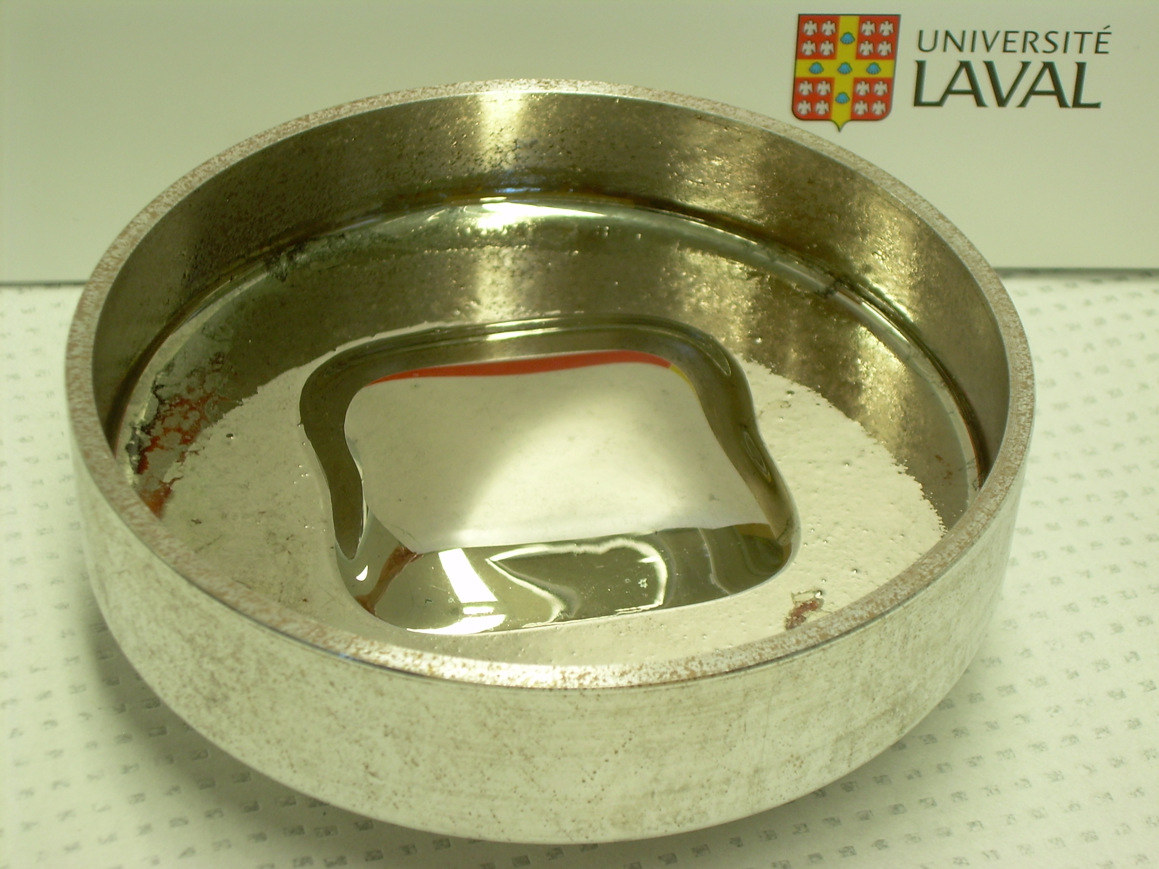 Picture of a ferrofluid deformable mirror